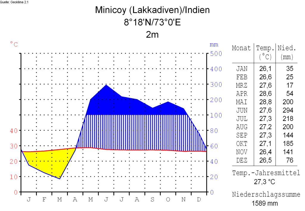 climate chart in the format by Walter and Lieth, metric, °Celsisus and millimeters, made with Geoklima 2.1